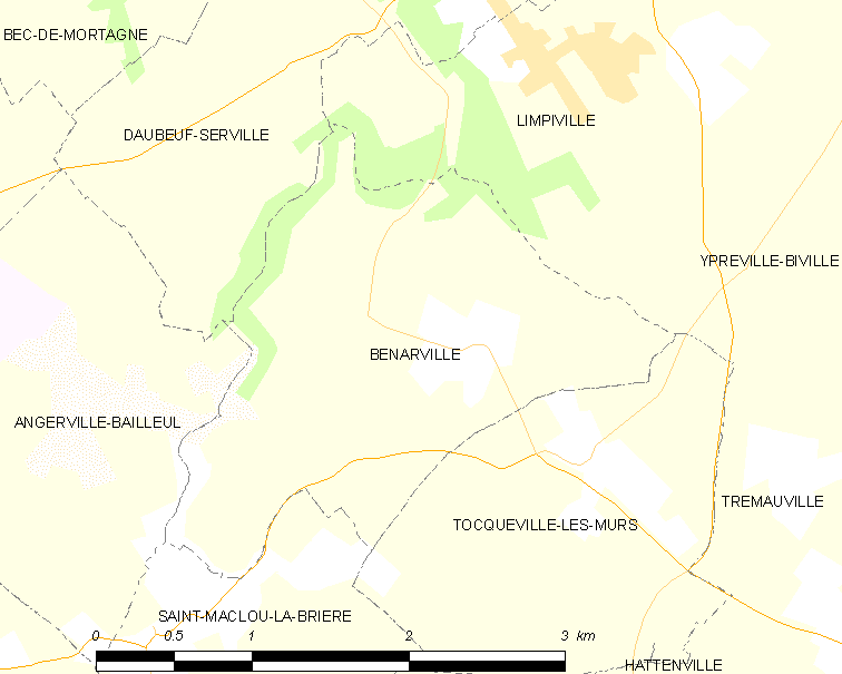 Map of French municipality Bénarville